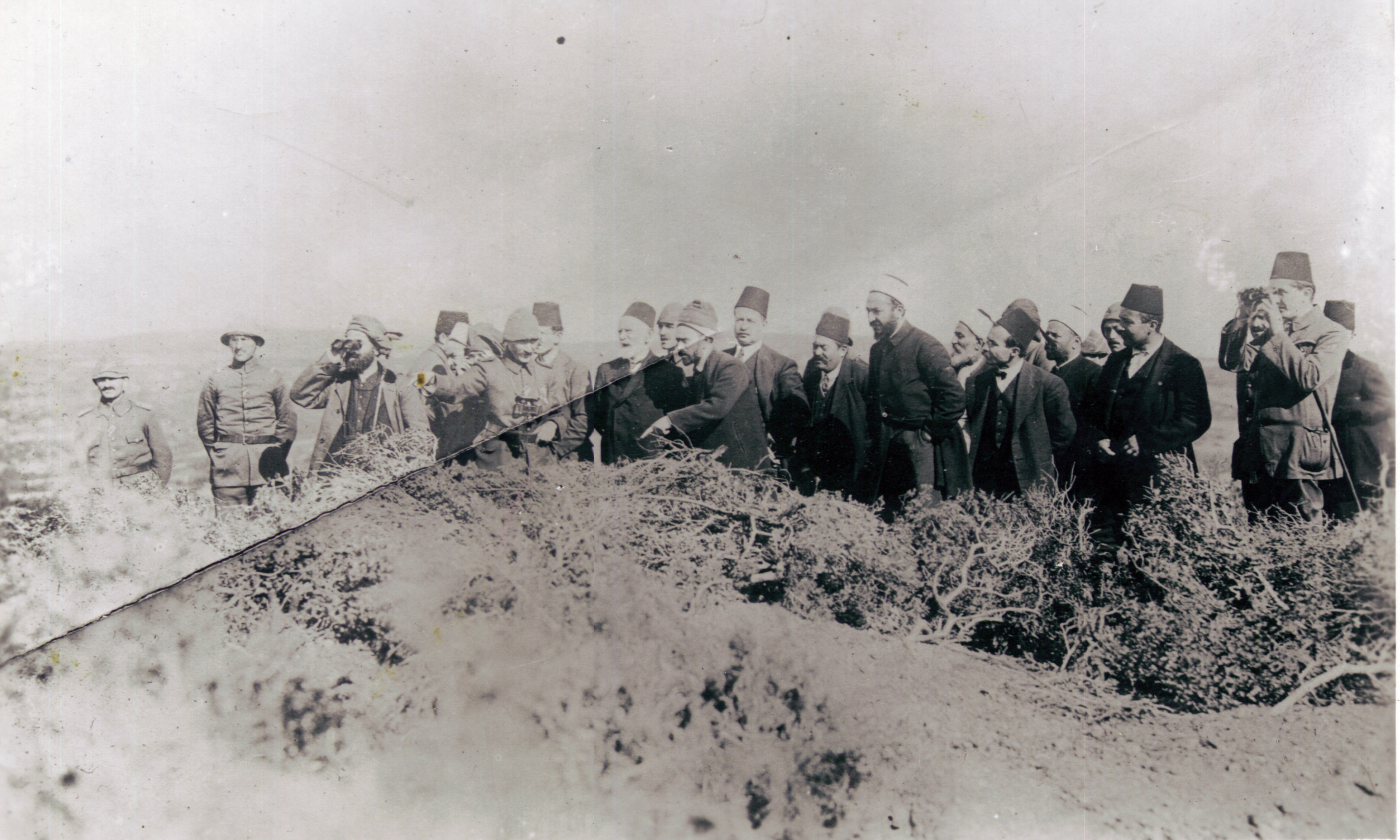 Mustafa Kemal explaining the battlefield to a delegation of writers from Istanbul